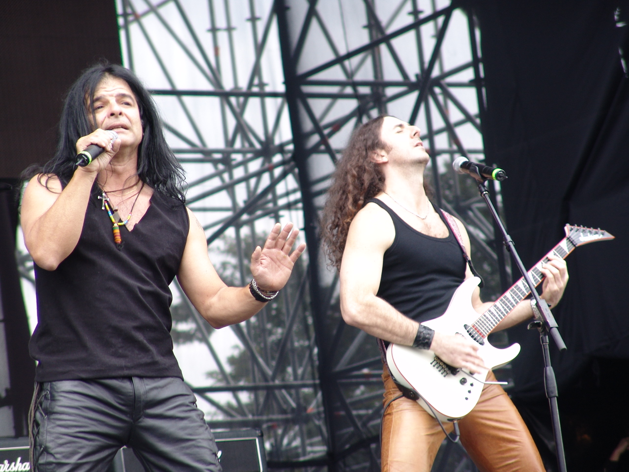 Kronos, Rock al parque 2008